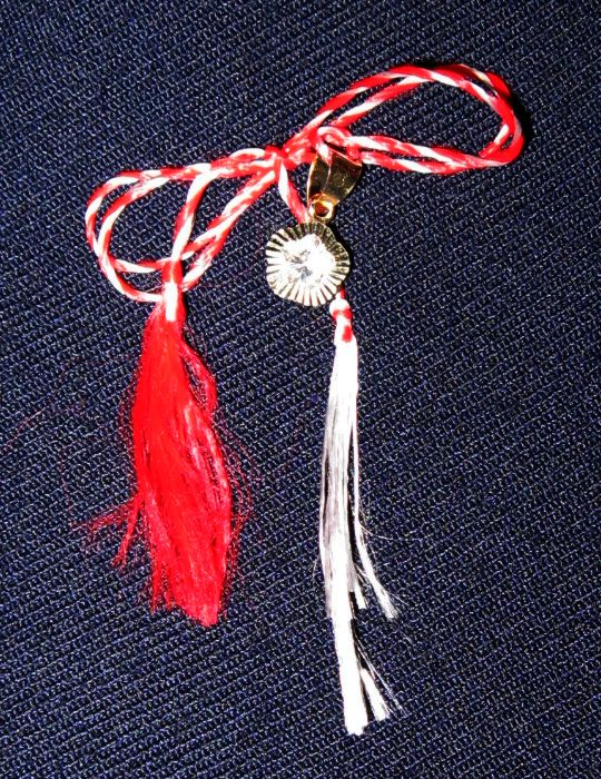 "Mărţişor", gold jewel.